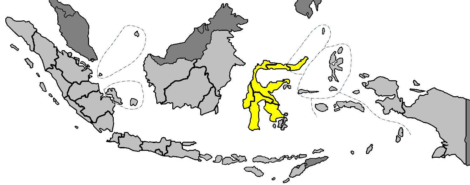 locator map of Indonesian islands